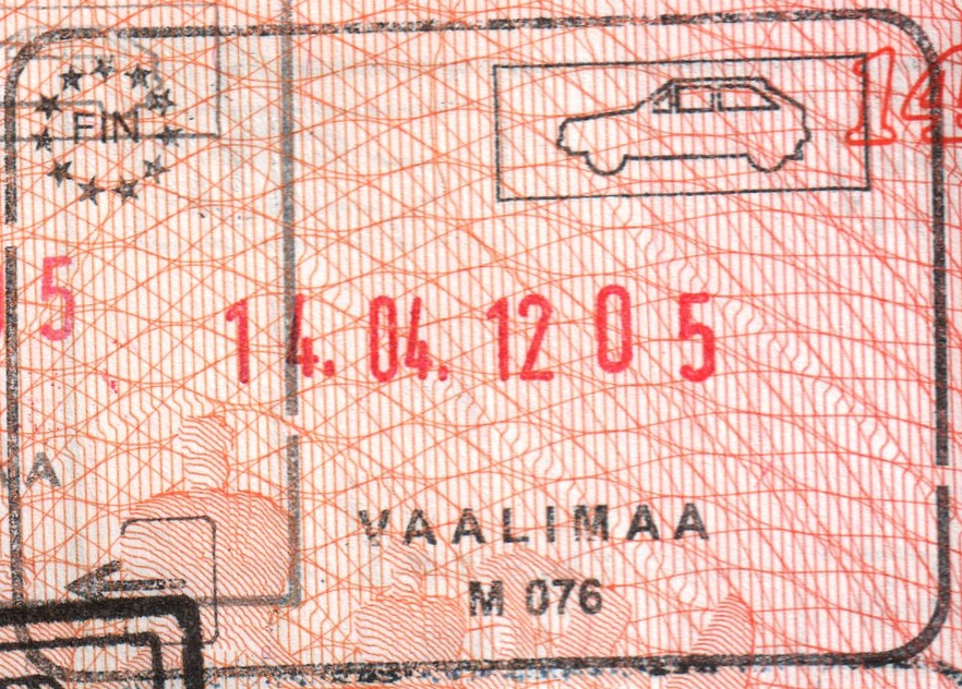 Passport stamp from Vaalimaa, Finland.